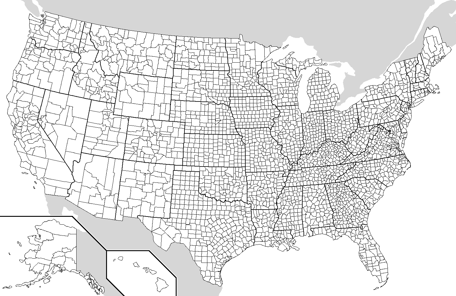 Map of the USA showing borders of states and counties. Adapted by Wapcaplet from a public-domain map courtesy of the U.S. Census Bureau website.